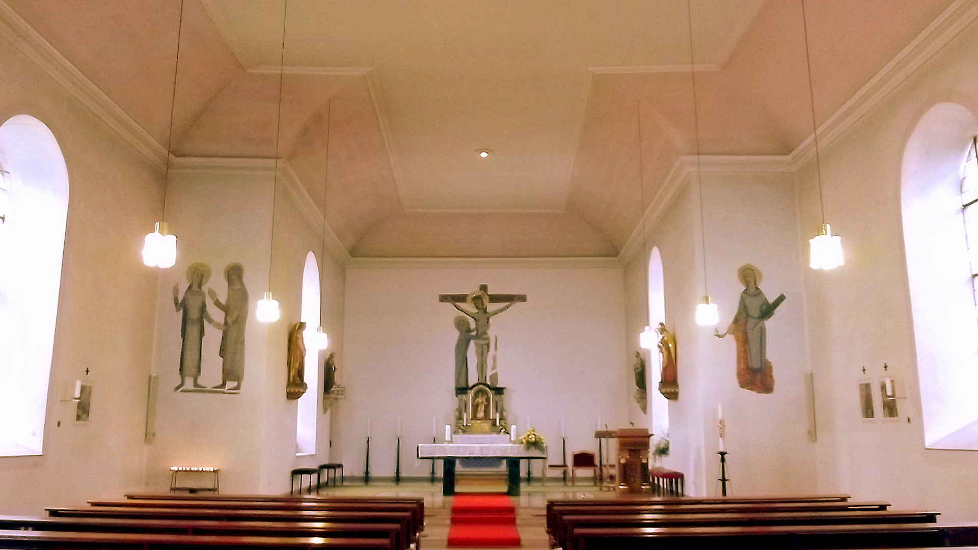 Interior of the roman catholic church in Büdingen, Saarland, Germany